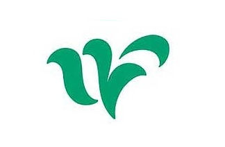 Flag of Wakasa Fukui